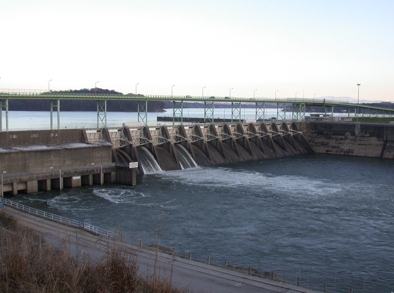 Fort Loudoun Dam in the U.S. state of Tennessee